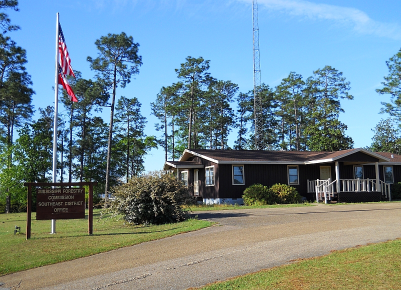 Former Southeast District Office, Mississippi Forestry Commission, located in Wiggins, Stone County, Mississippi, USA. This District Office closed in 2019.